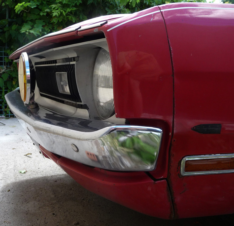 Front bumper on a 1971 Dodge Dart, left view